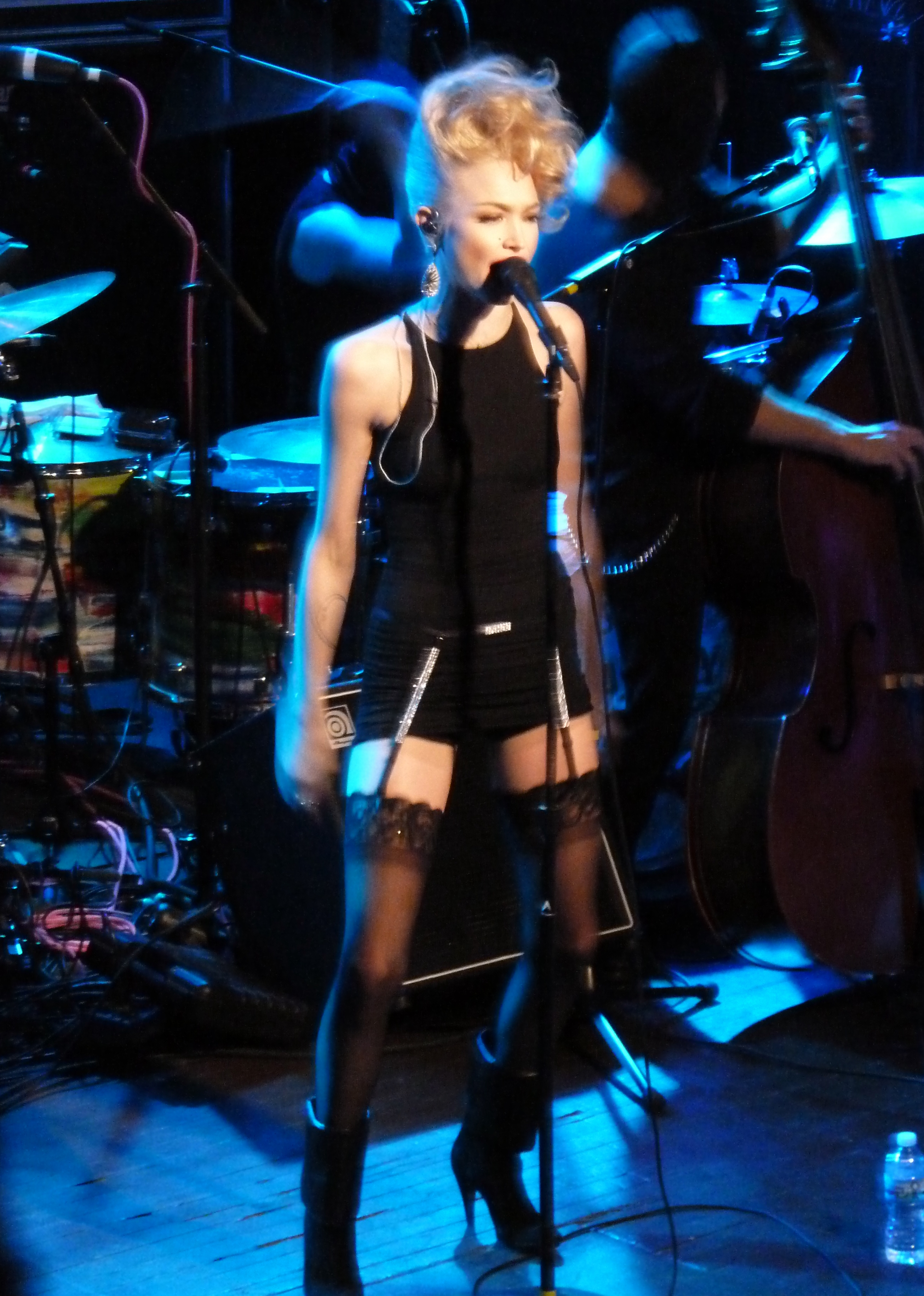 Ivy Levan at St Andrews Hall, Detroit, 6/20/13